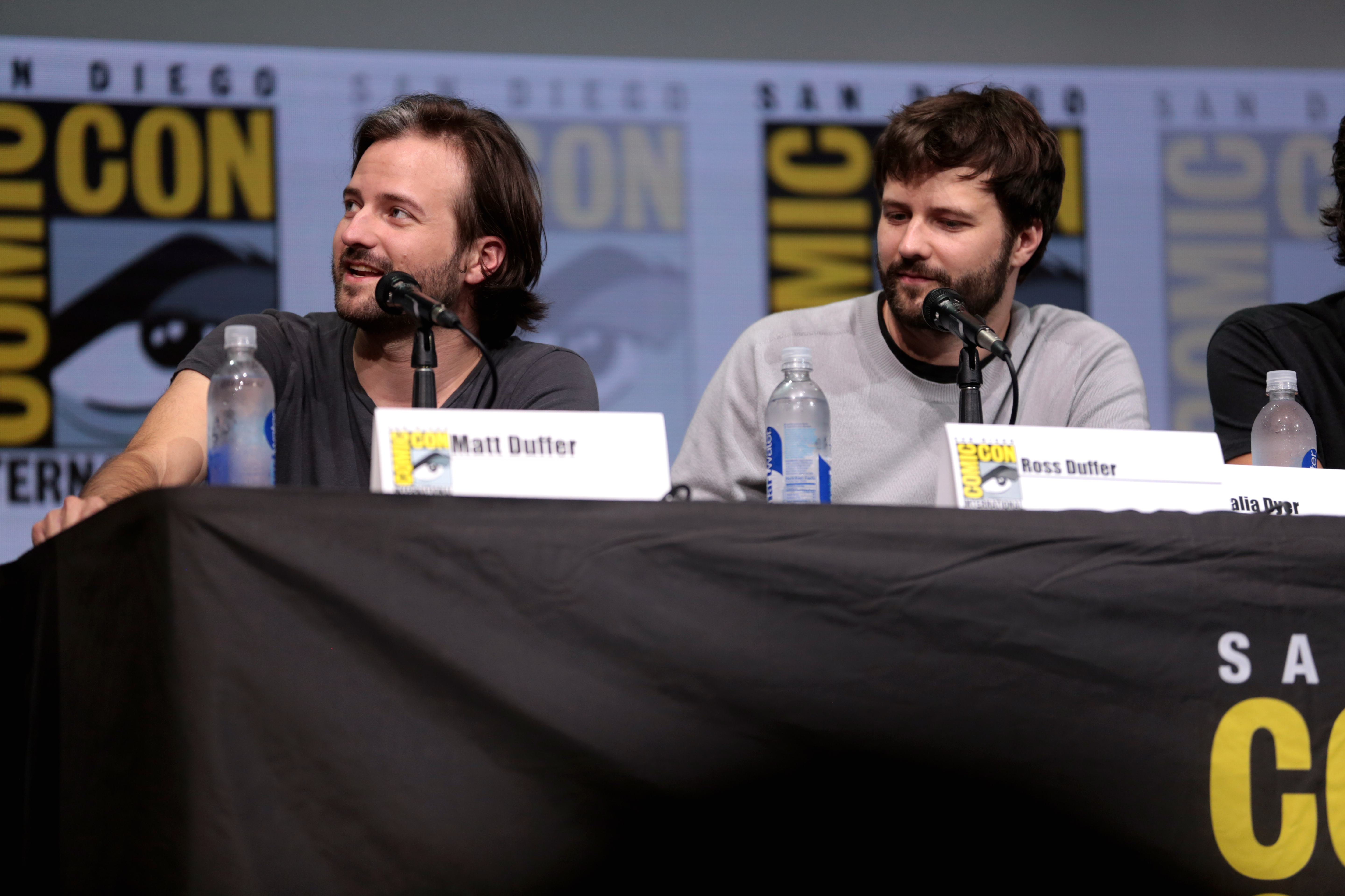 Matt and Ross Duffer speaking at the 2017 San Diego Comic Con International, for "Stranger Things", at the San Diego Convention Center in San Diego, California.